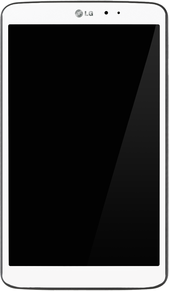 LG G Pad 8.3 render